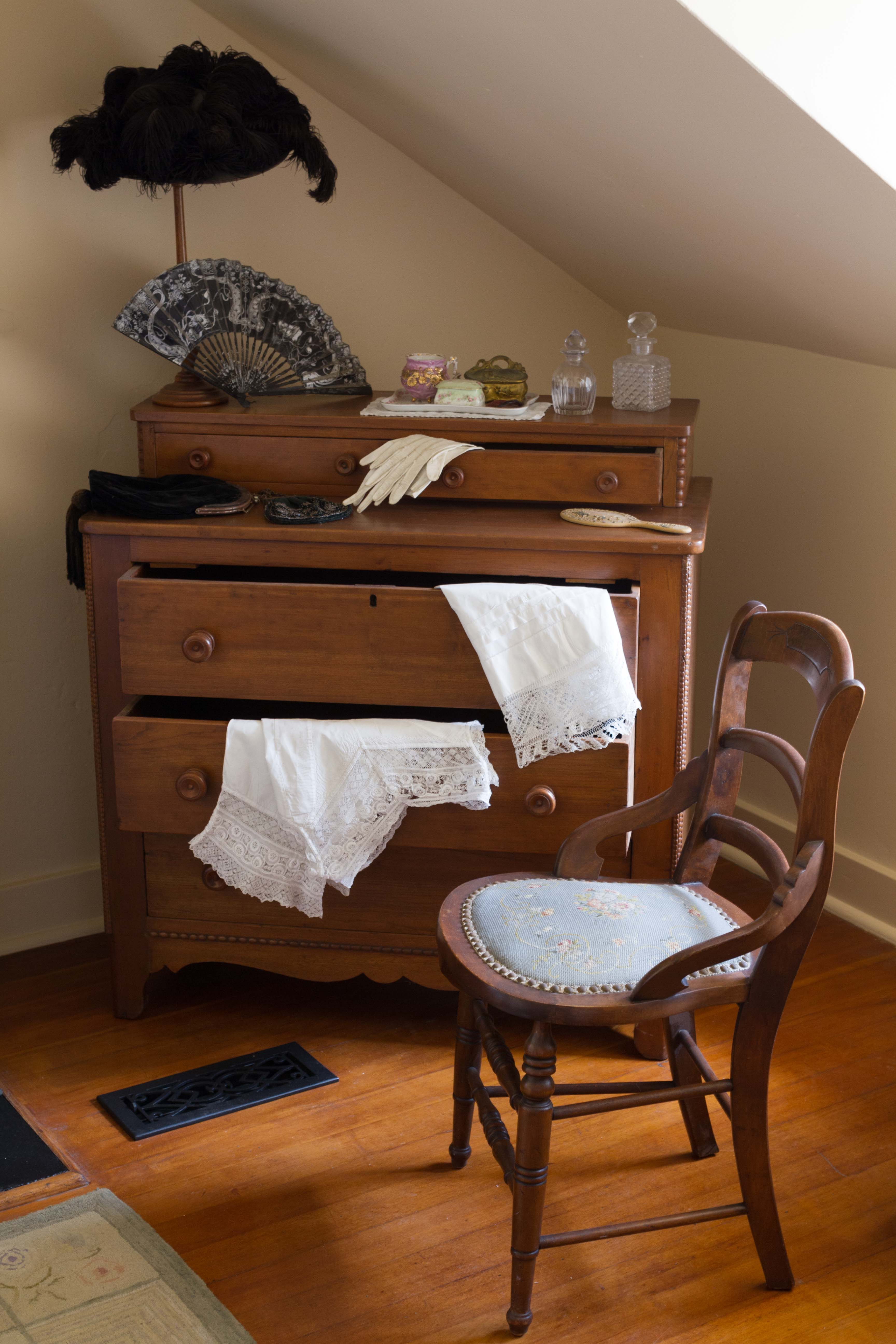 Emily Fish's dressing table at Point Pinos Light, Monterey, California.